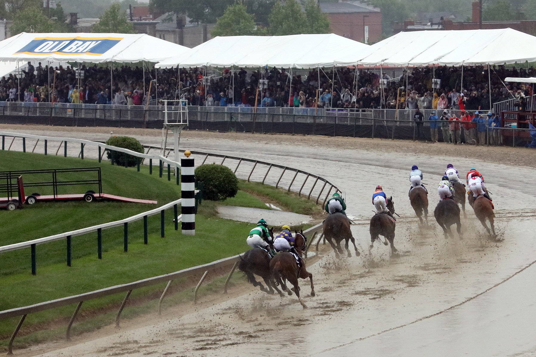 Early in the race, Nyquist challenged for the lead in a speed duel with Uncle Lino, while eventual winner Exaggerator was toward the back of the pack 2016 Preakness Stakes by Steve Kwak at Baltimore, Maryland